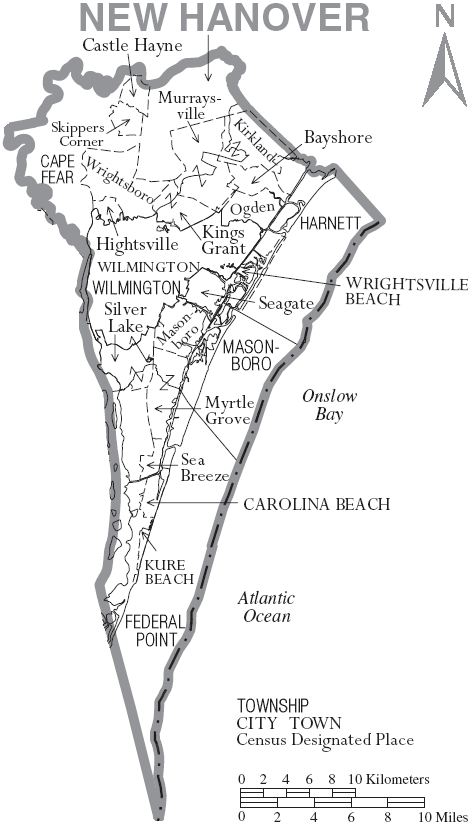 Map of New Hanover County, North Carolina, United States with township and municipal boundaries